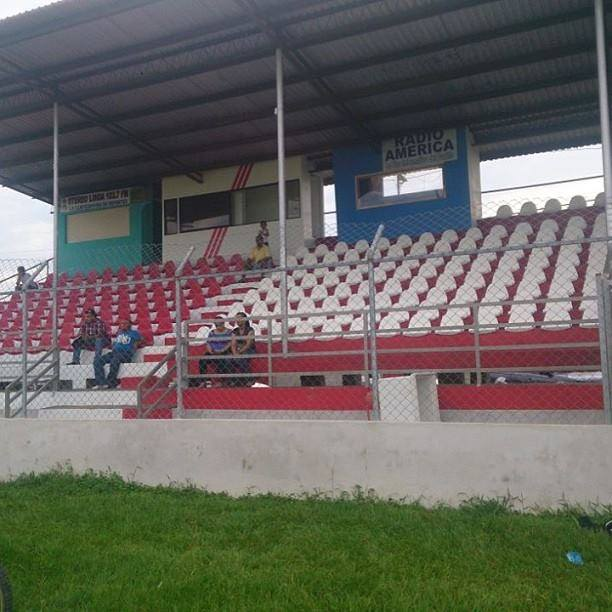 Stadium